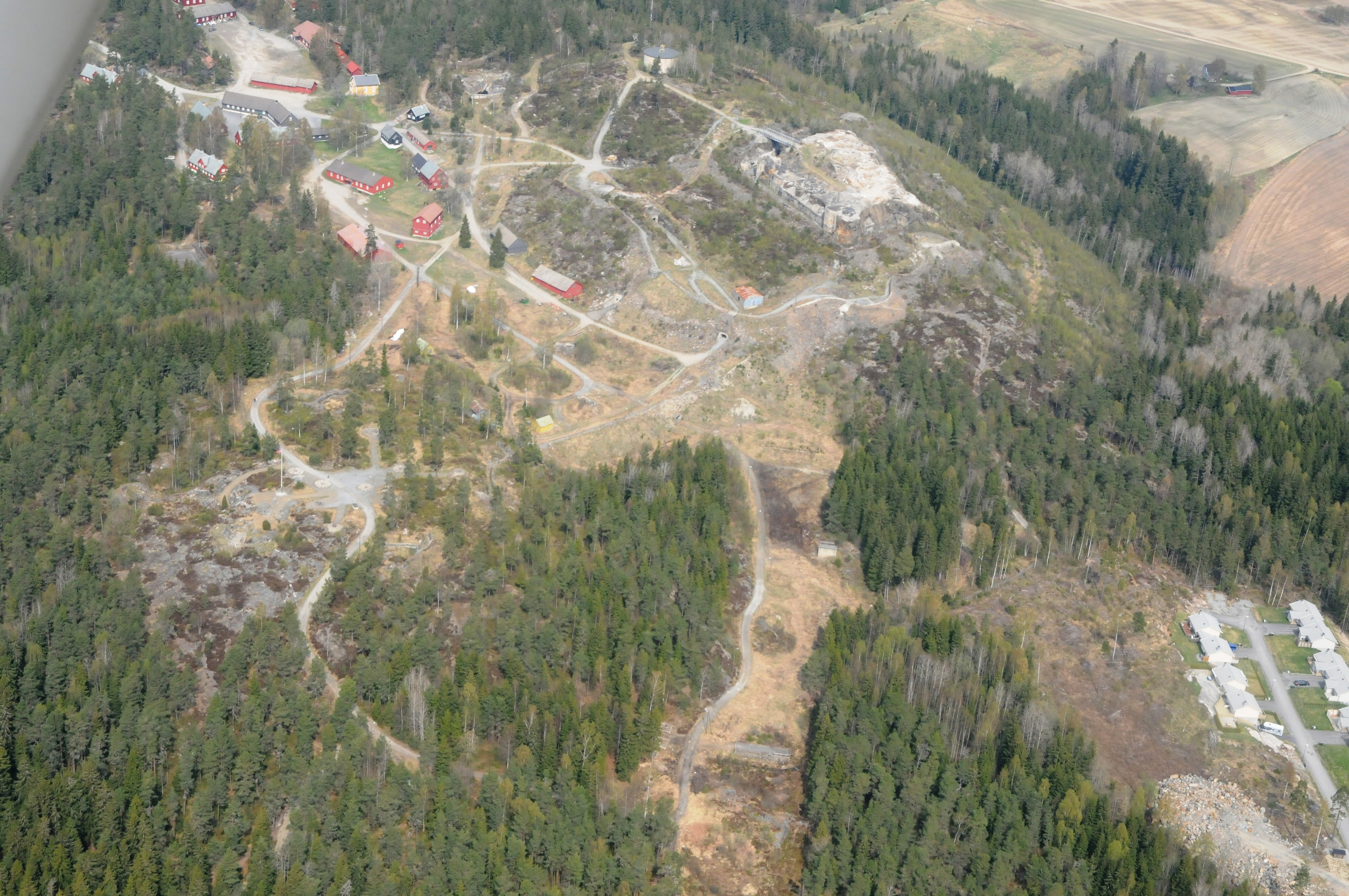 Air view of Høytorp fort